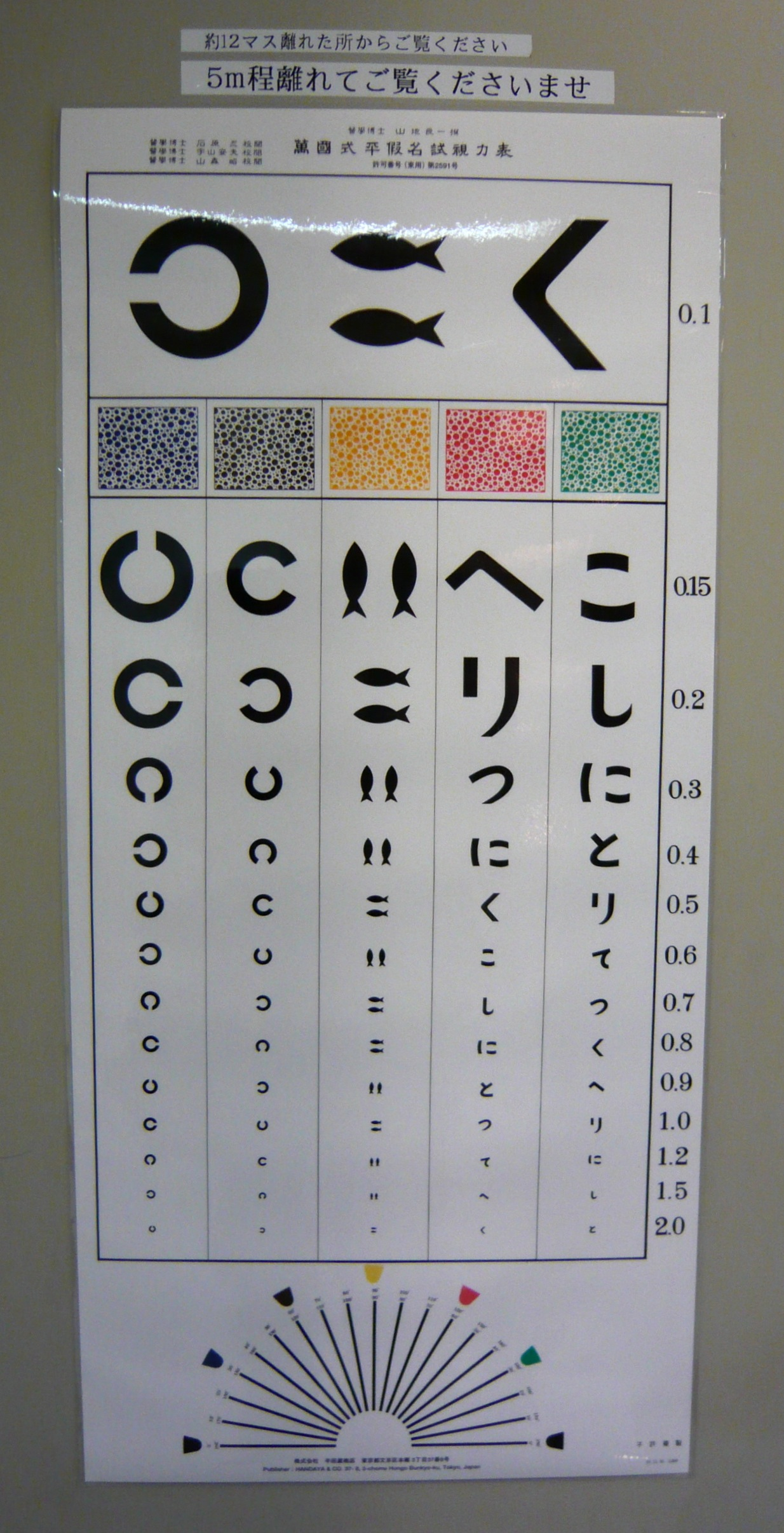 Japanese eye chart